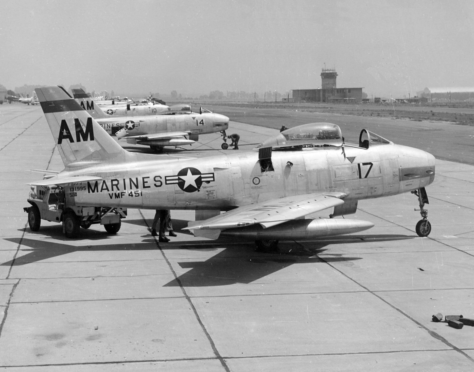 A U.S. Marine Corps North American FJ-2 Fury (BuNo 131995) of Marine Fighter Squadron VMF-451. The squadron was based at Marine Corps Air Station El Toro, California (USA).